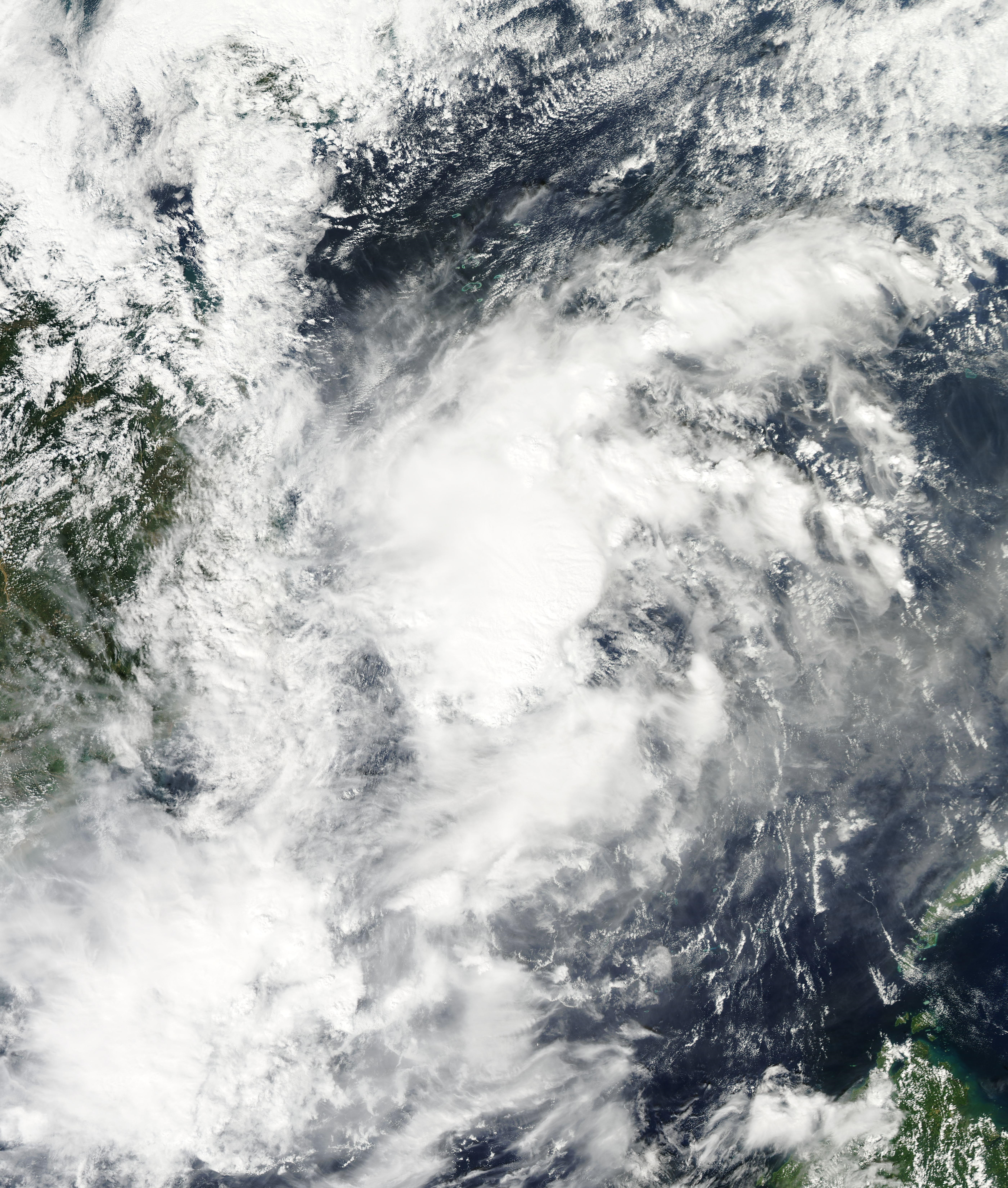 JMA Tropical Depression (Zoraida) over Vietnam on November 14,2013